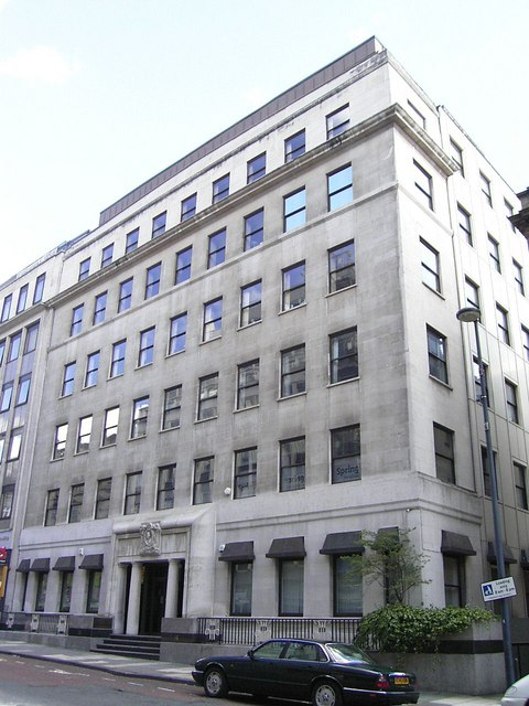 Friends Provident Building, South Parade, Leeds Built post war in white Portland stone